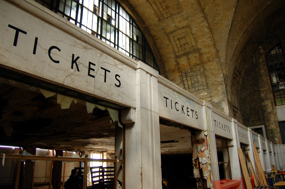 Old ticket counters of the Buffalo Central Terminal, Buffalo, NY.